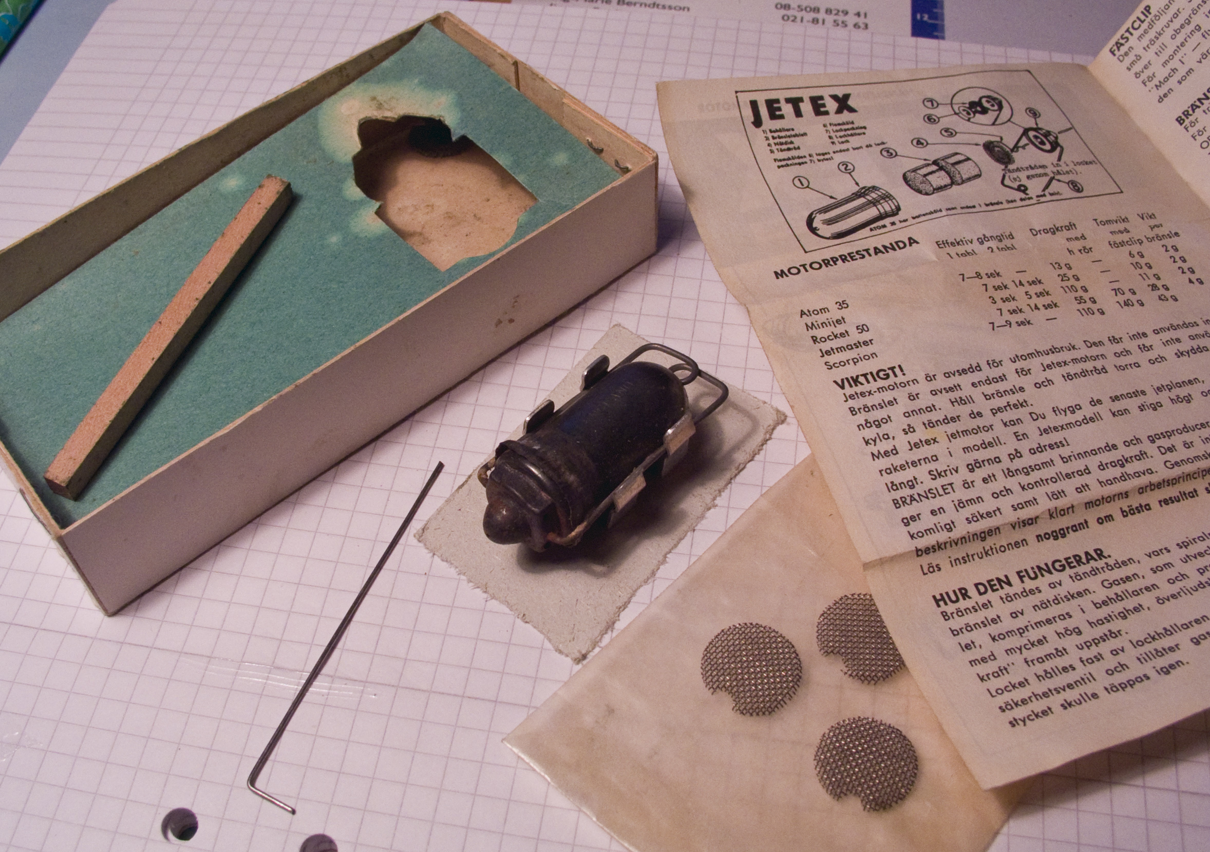 Jetex, jet engine for very small vehicles. Overview.